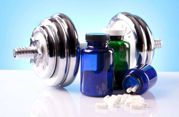 Imagen de suplementos deportivos utilizados para mejorar el rendimiento físico.